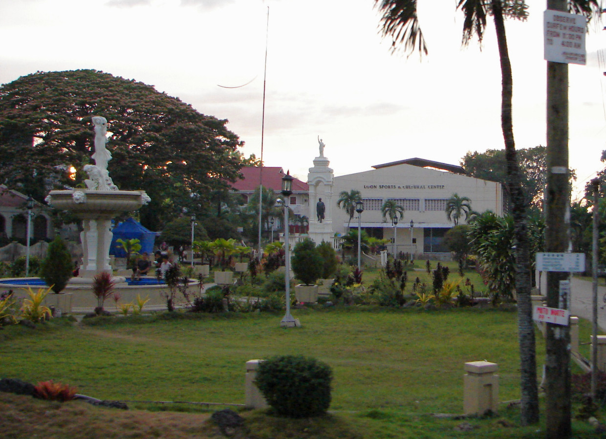 Public park and Cultural Center in Loon, Bohol, Philippines